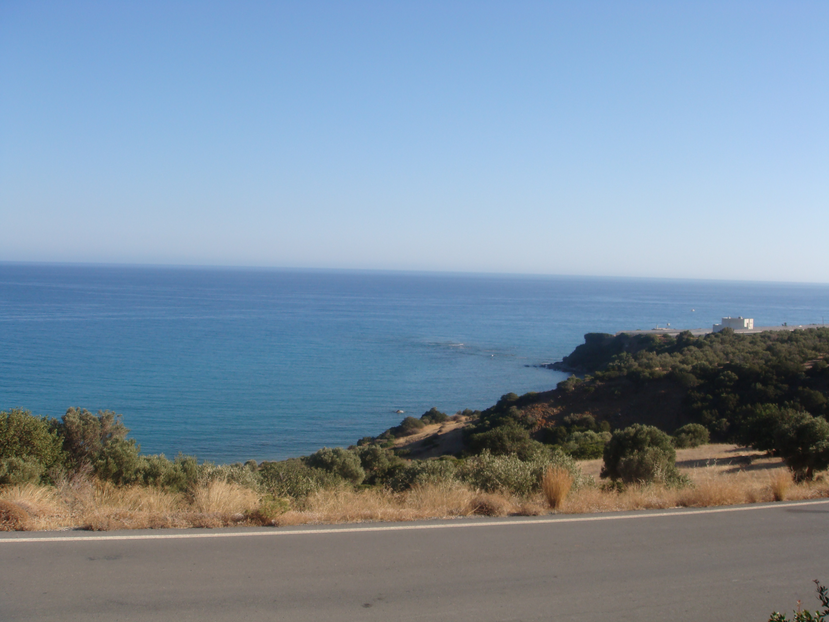 View from Kastri, Iraklion prefecture.